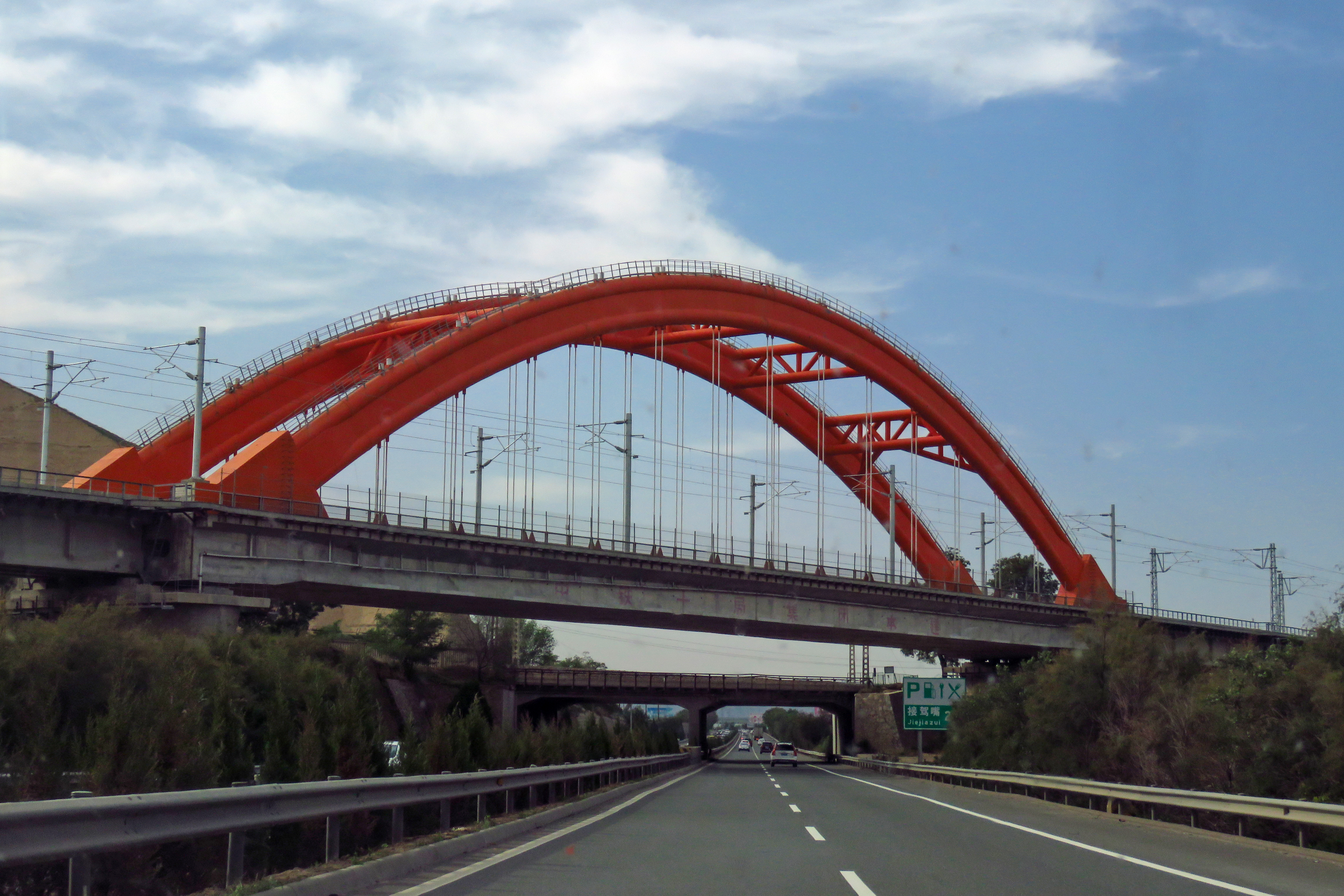 This newer bridge is the newly-opened Lanzhou-Chongqing Railway, and the older Longhai Railway bridge is behind it.